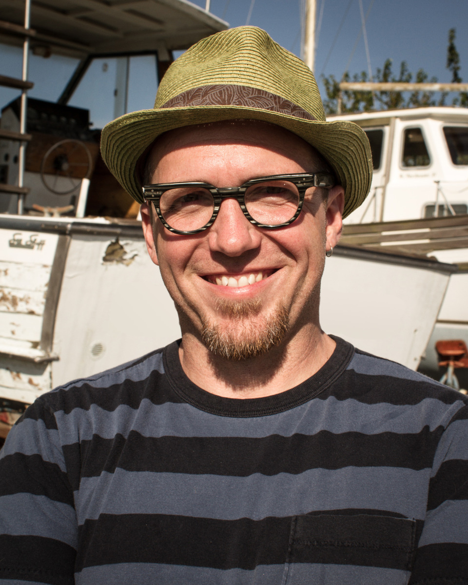 A photo of Brian Biggs taken in August 2013